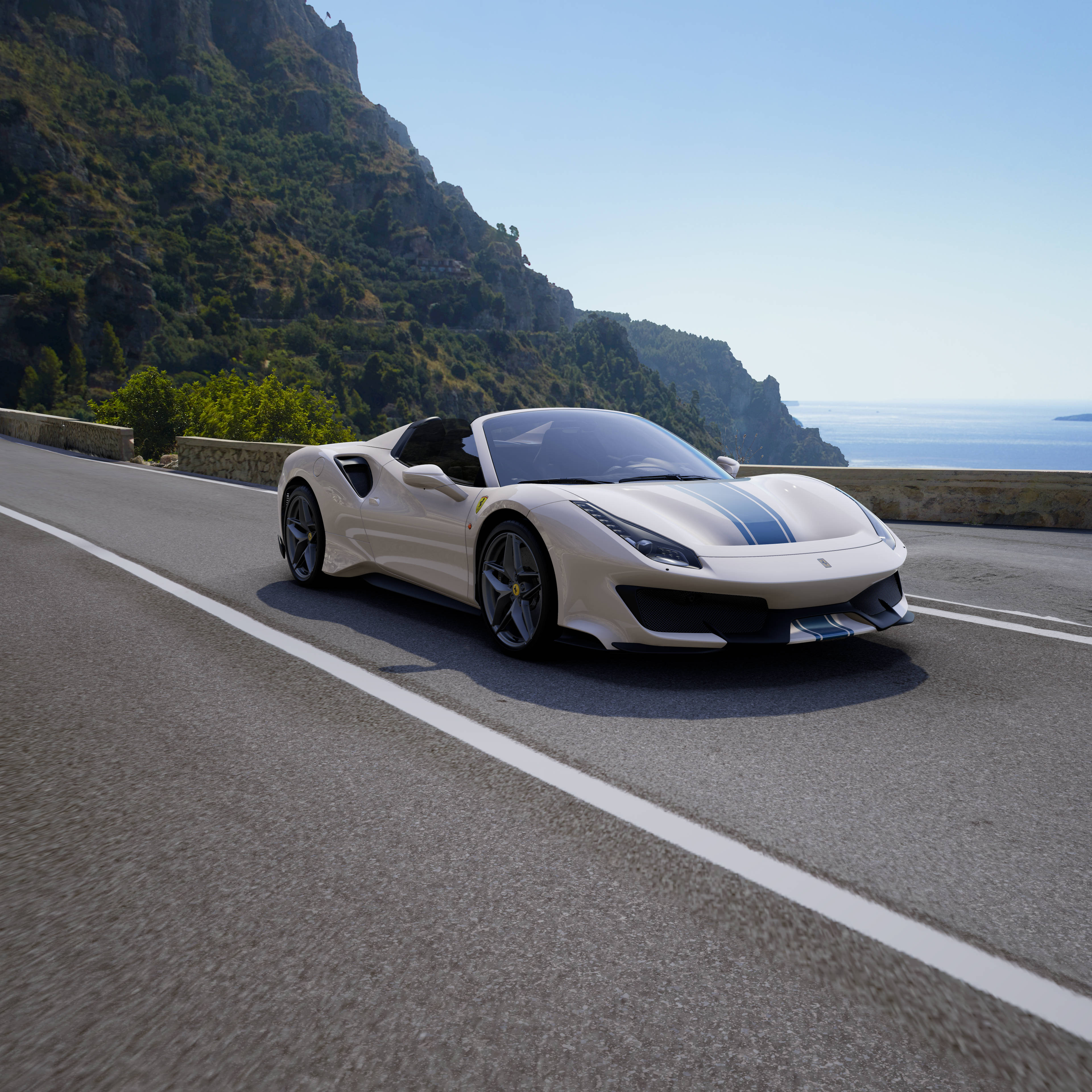 Ferrari 488 pista spider